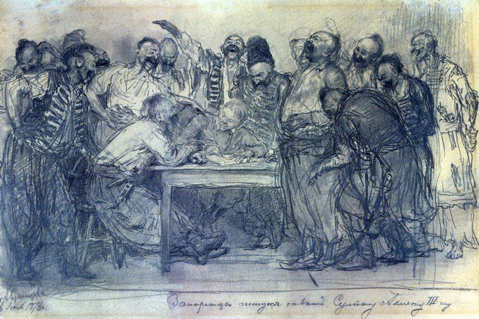 The Reply of the Zaporozhian Cossacks to Sultan of Turkey.